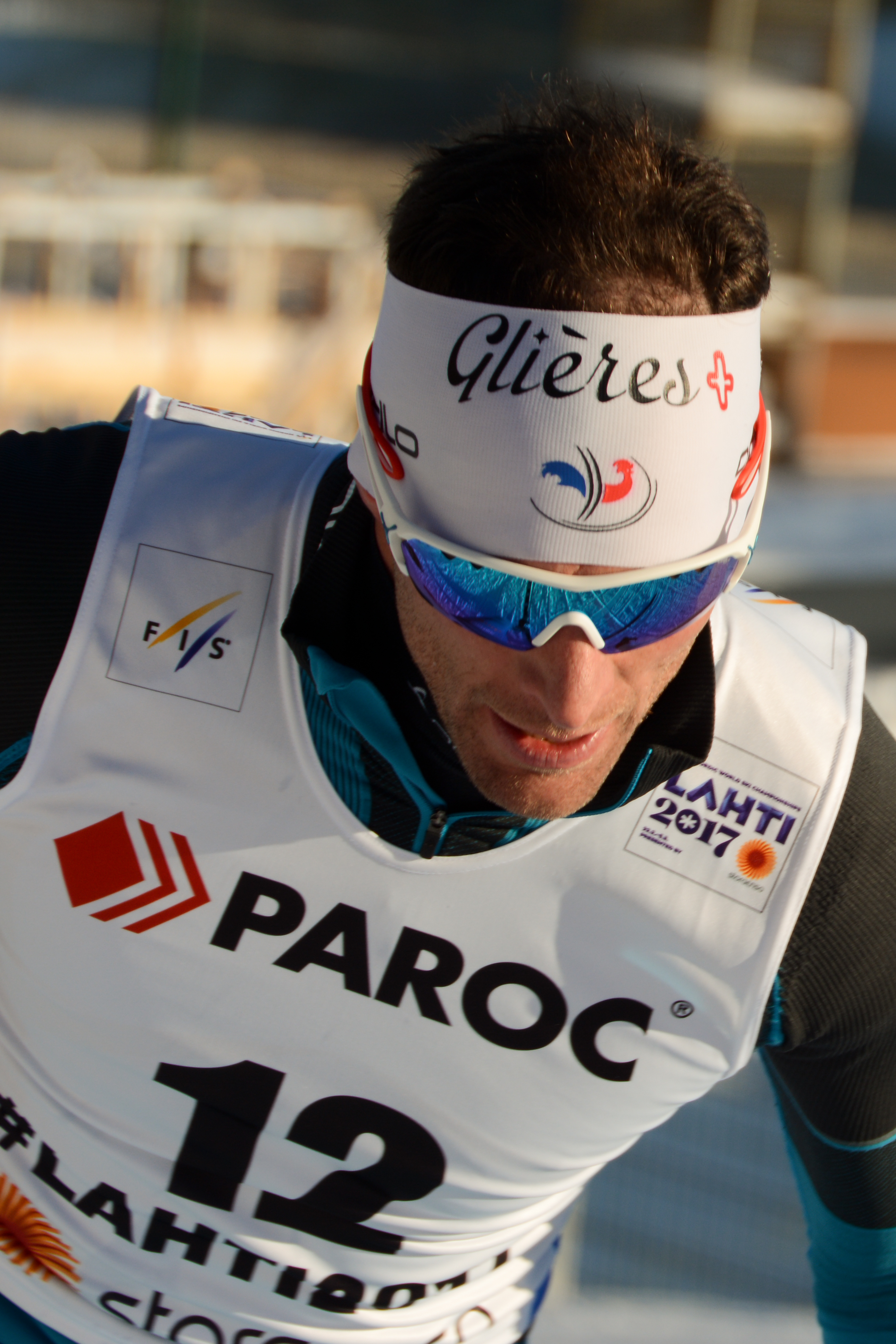 Jean-Marc Gaillard in men's skiathlon race in FIS Nordic World Ski Championships 2017 in Lahti, Finland